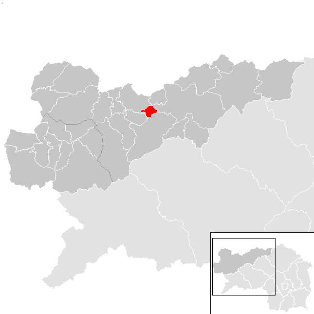 District Leoben